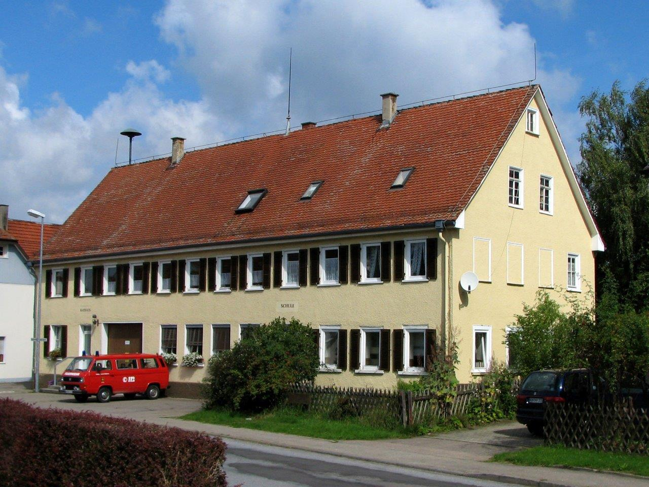 Zang Townhall and school